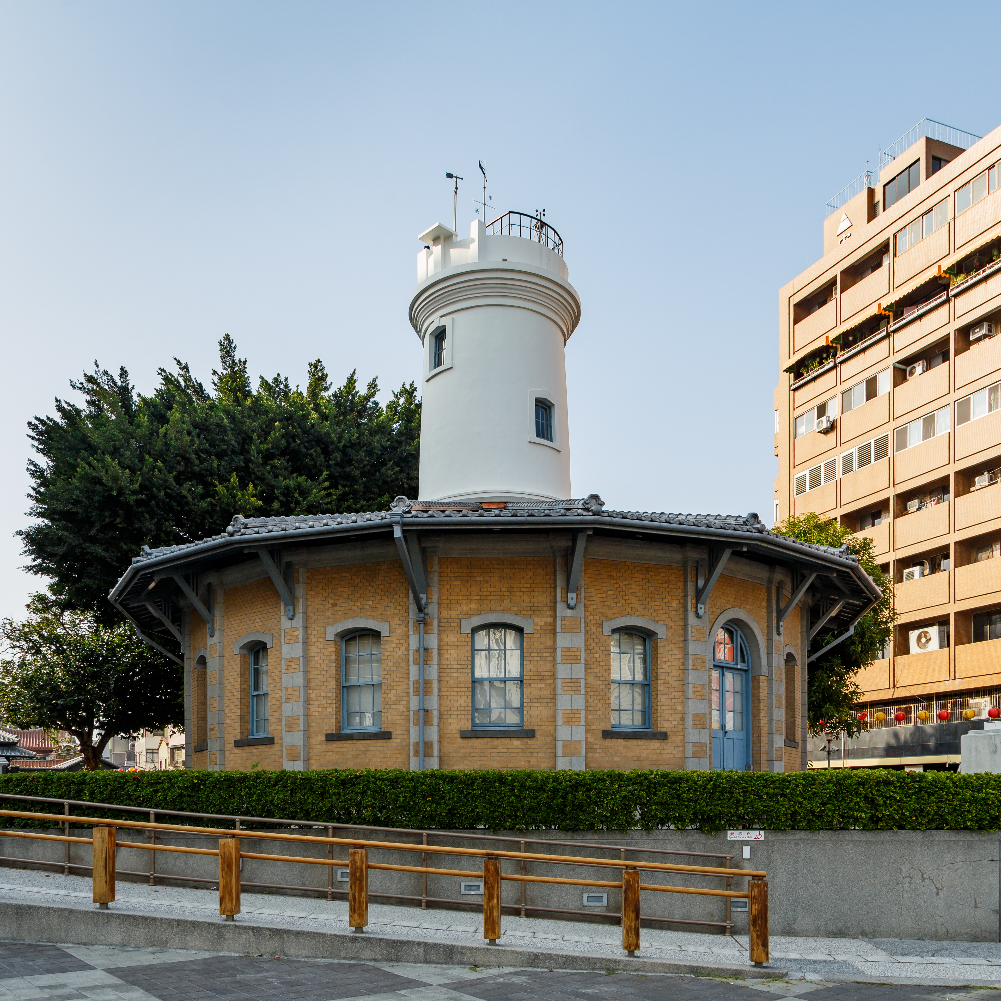 Tainan, Taiwan: Former Meteorological Station